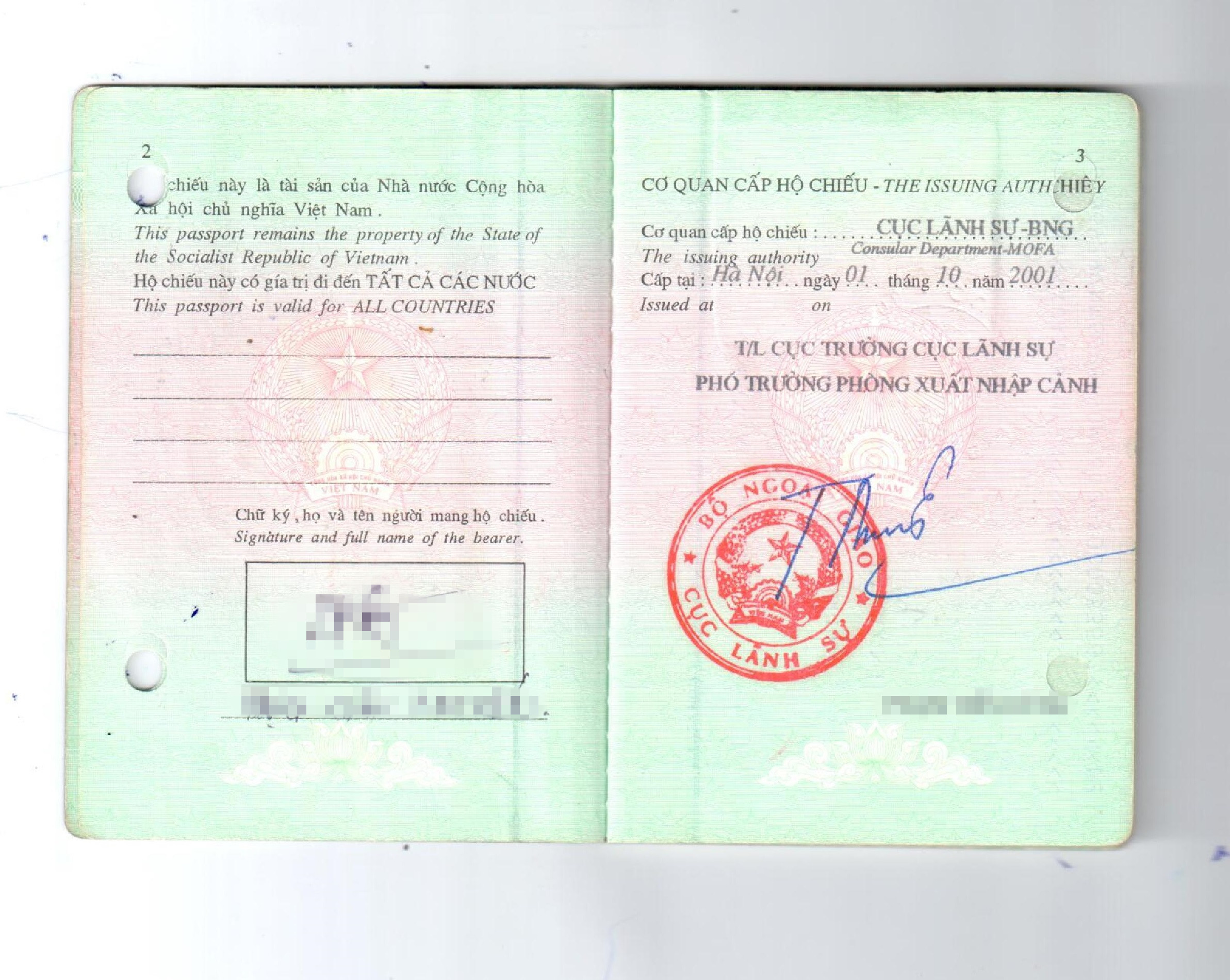 Image of a Vietnamese official passport's page 2-3 (issued 2001). From 2001, Vietnamese passports started to state that "This passport remains the property of Socialist Republic of Vietnam and is issued to a Vietnamese citizen only. This passport is valid for all countries."